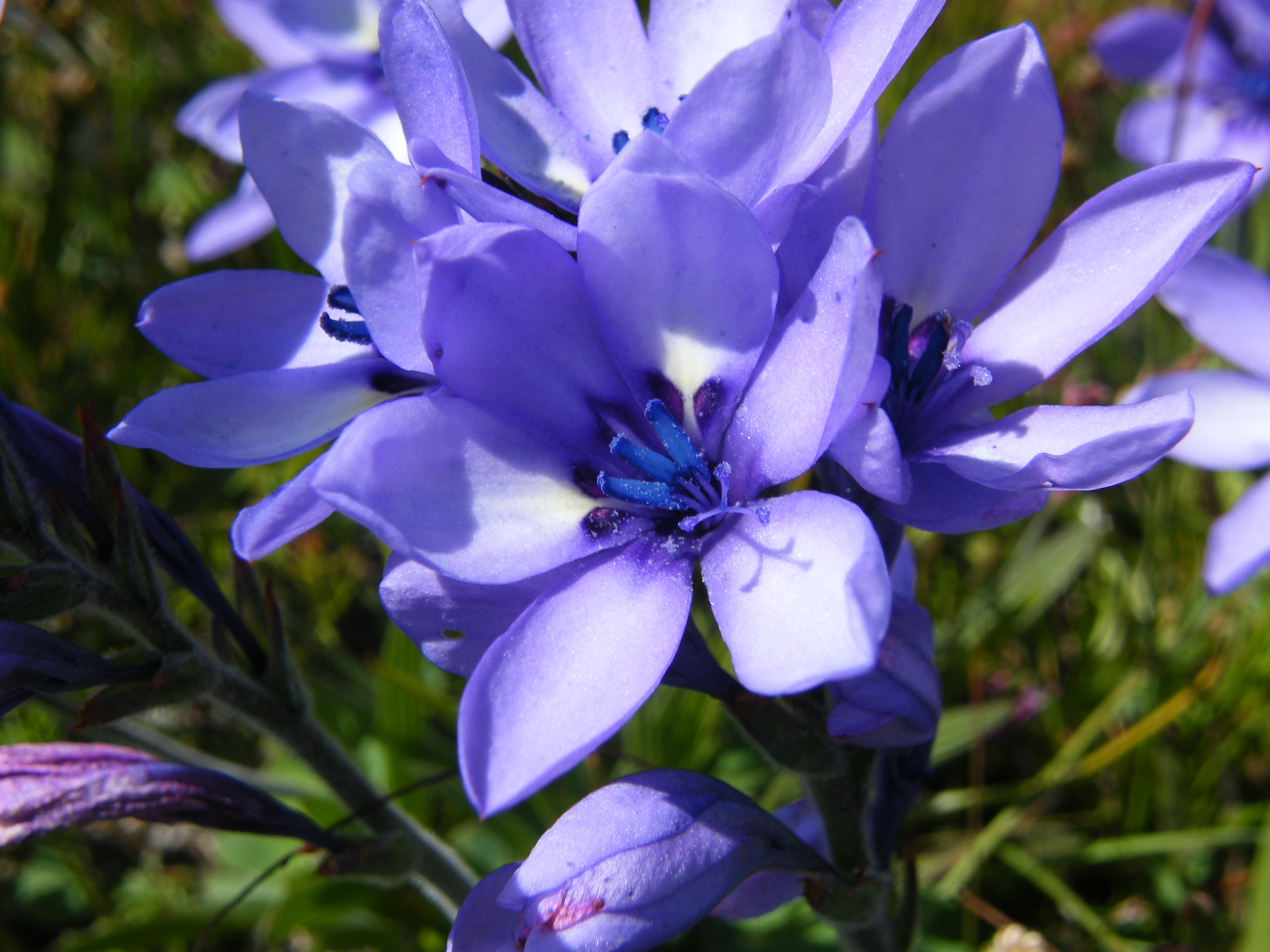 Formerly dischita. Rondebosch Common Cape Town